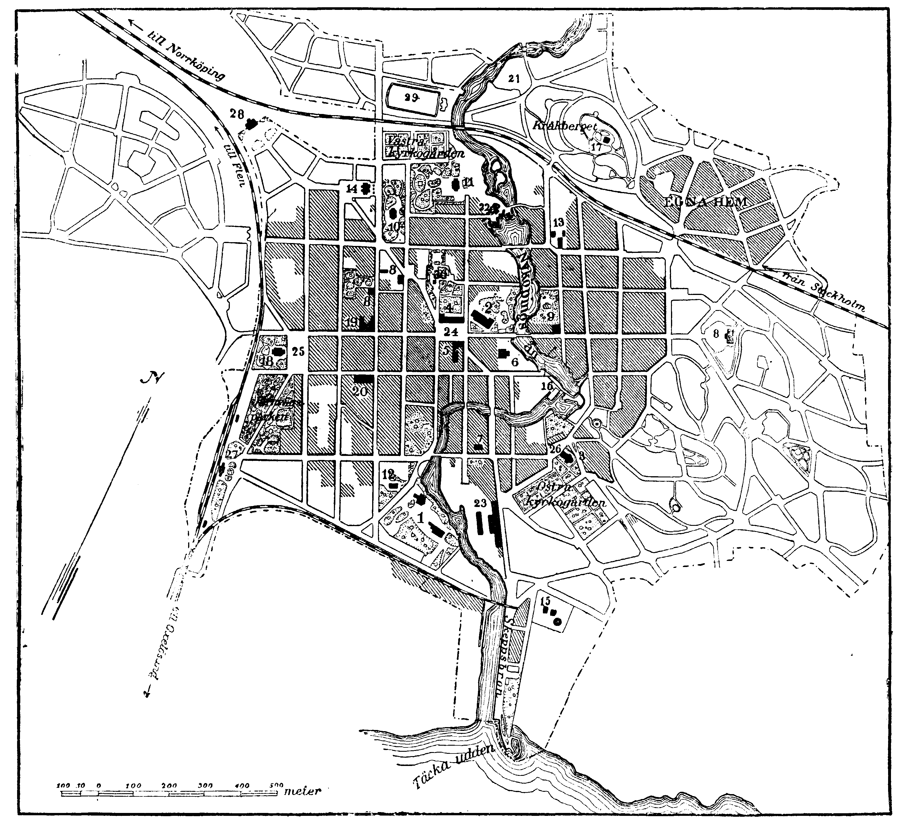 Map of Nyköping town in Sweden, as it appears in Nordisk familjebok (1914), scanned in 600 dpi resolution, bitonal black-white for Project Runeberg.